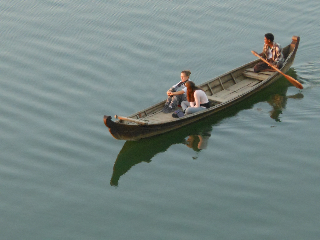 Tourists Hire Their Own Boat